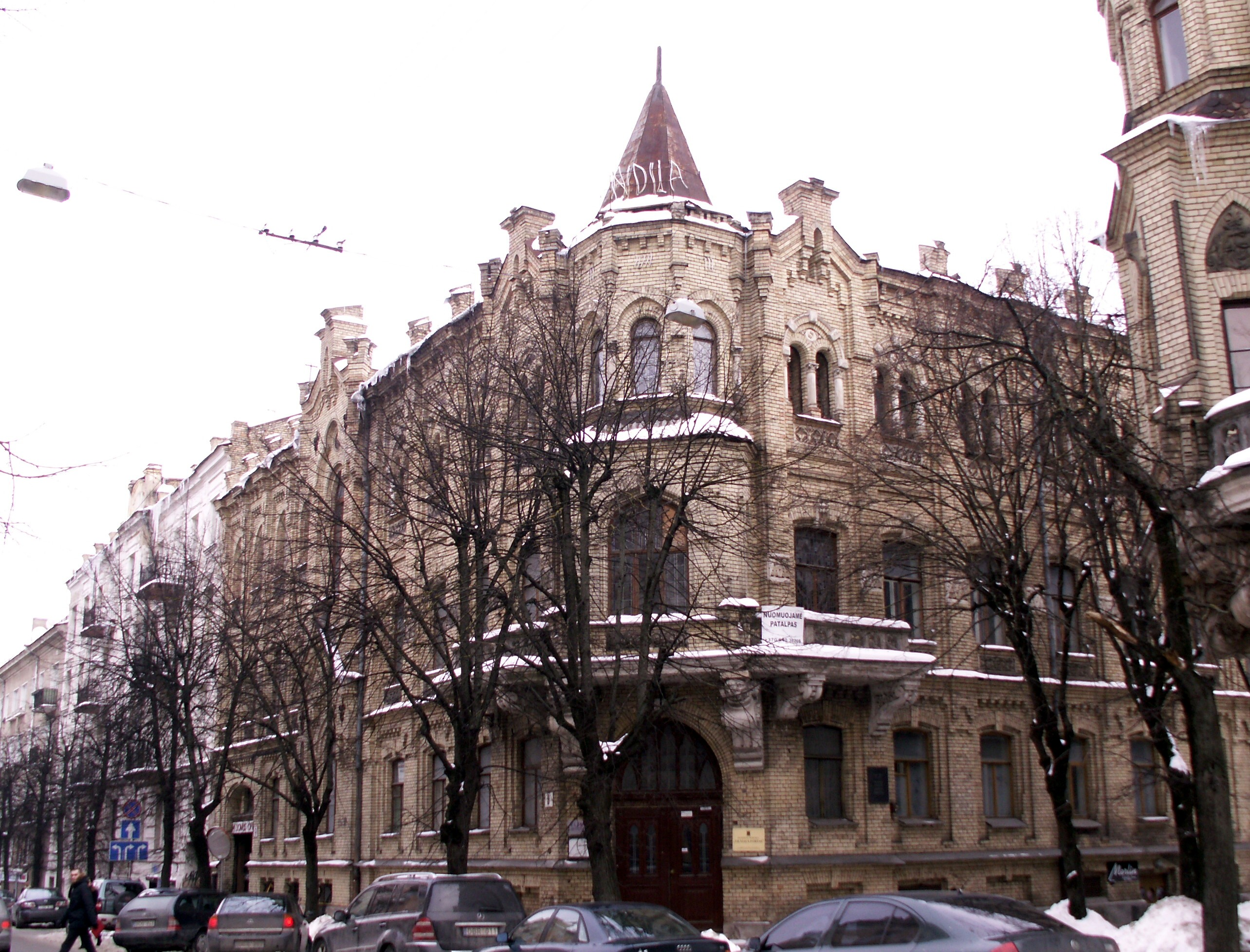 Jakšto 7 in Vilnius